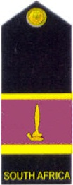 Image of shoulder board worn by Hindu chaplains in the South African Navy (SANDF)